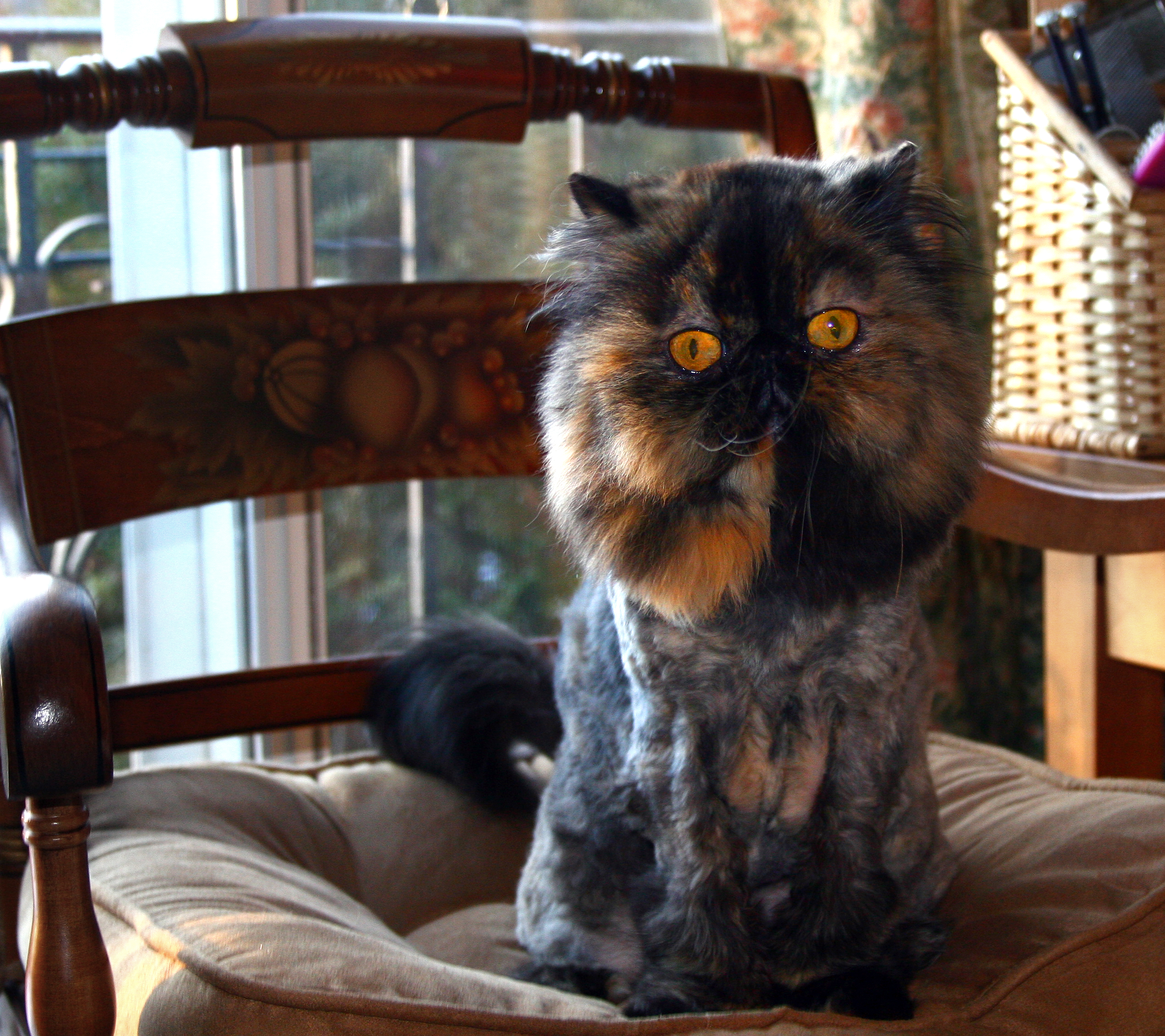 Lion cut tortoiseshell Persian cat.